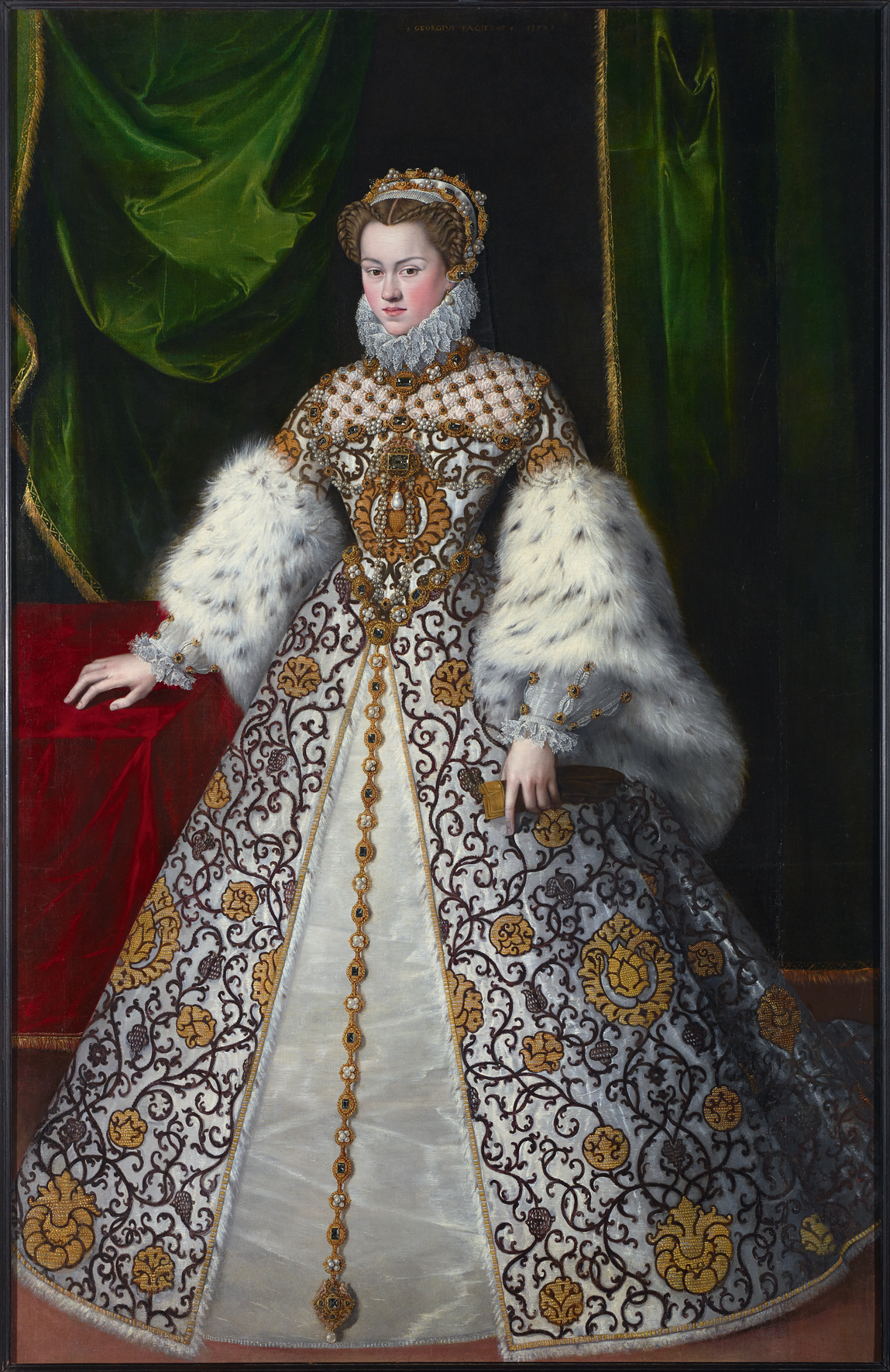 Portrait of Elizabeth of Austria (1554-1592), Queen consort of Charles IX of France.